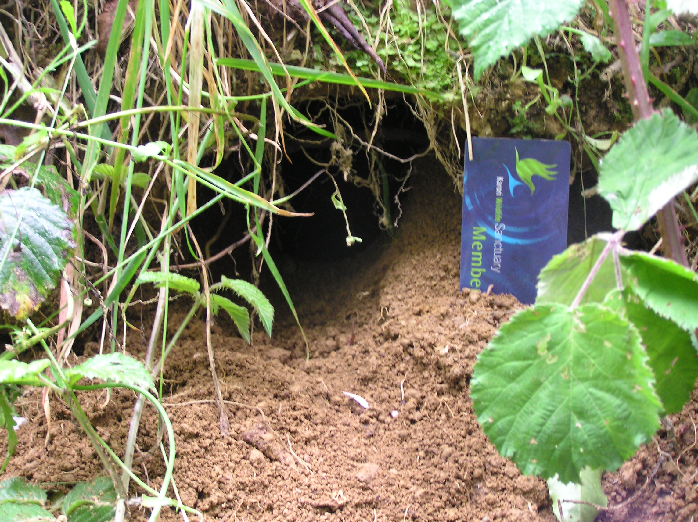 Entrance to the burrow of a kiwi (confirmed by the presence of kiwi feathers in the debris around the entrance). Credit card sized plastic card is for scale. Karori wildlife sanctuary (Zealandia), Wellington, New Zealand.